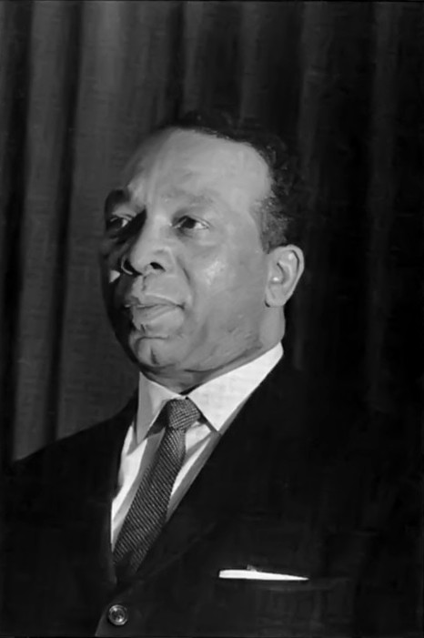 Walter Washington. (Original text: Photo posted at but attributed to the U.S. Library of Congress. )